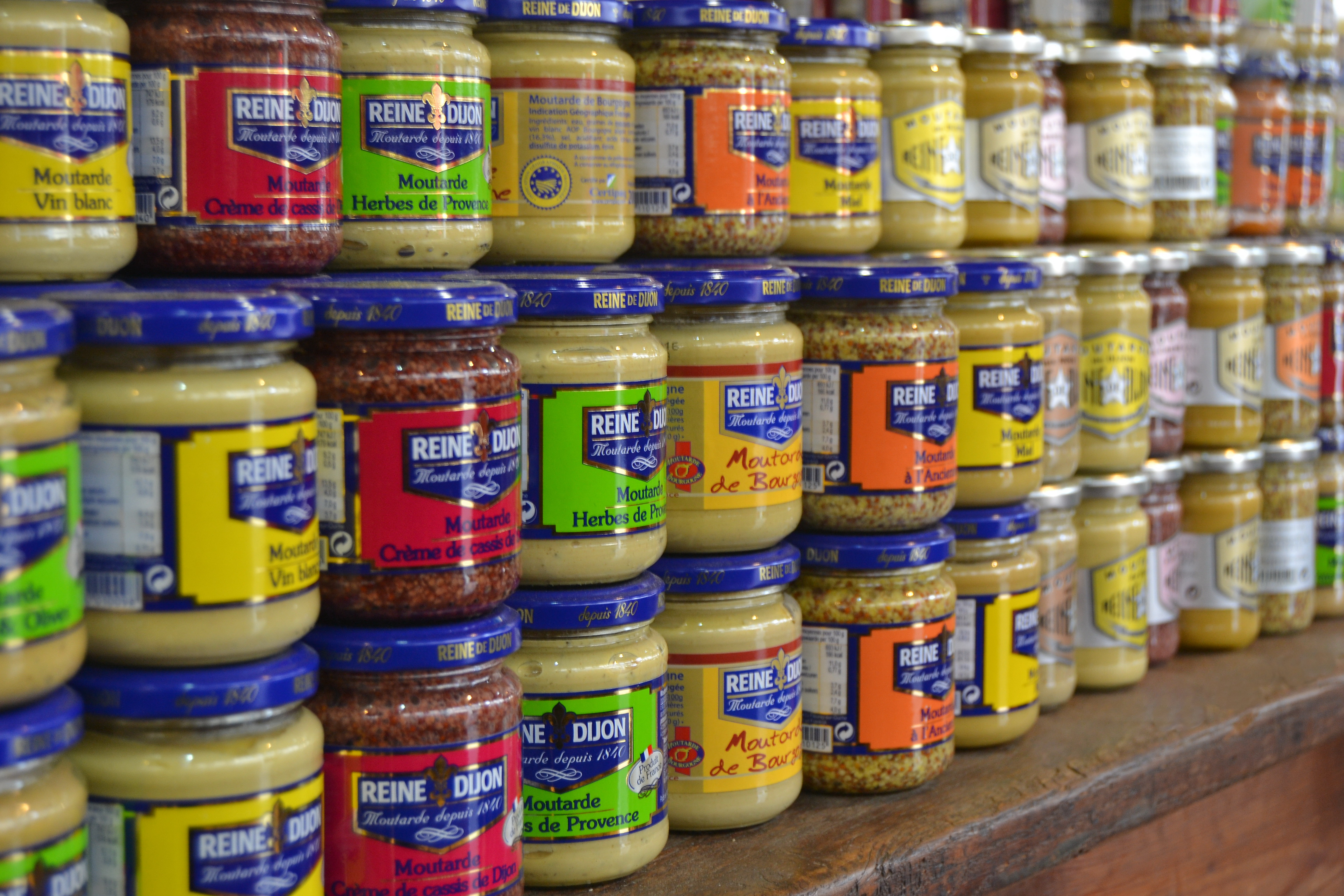 Dijon mustard